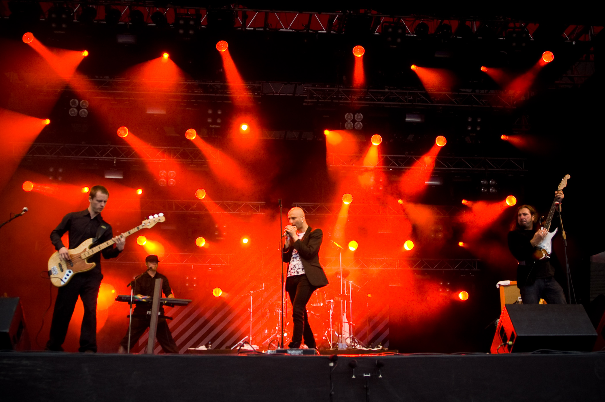 The Finnish band Herra Ylppö & Ihmiset performing at the Ilosaarirock festival on the 12th of July 2008 in Joensuu, Finland.